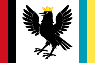 Blackbird on a white field. Flag of Ivano-Frankivsk Oblast, Ukraine; formerly Stanislav (Russian), Stanisławów (Polish), Stanislau (German).